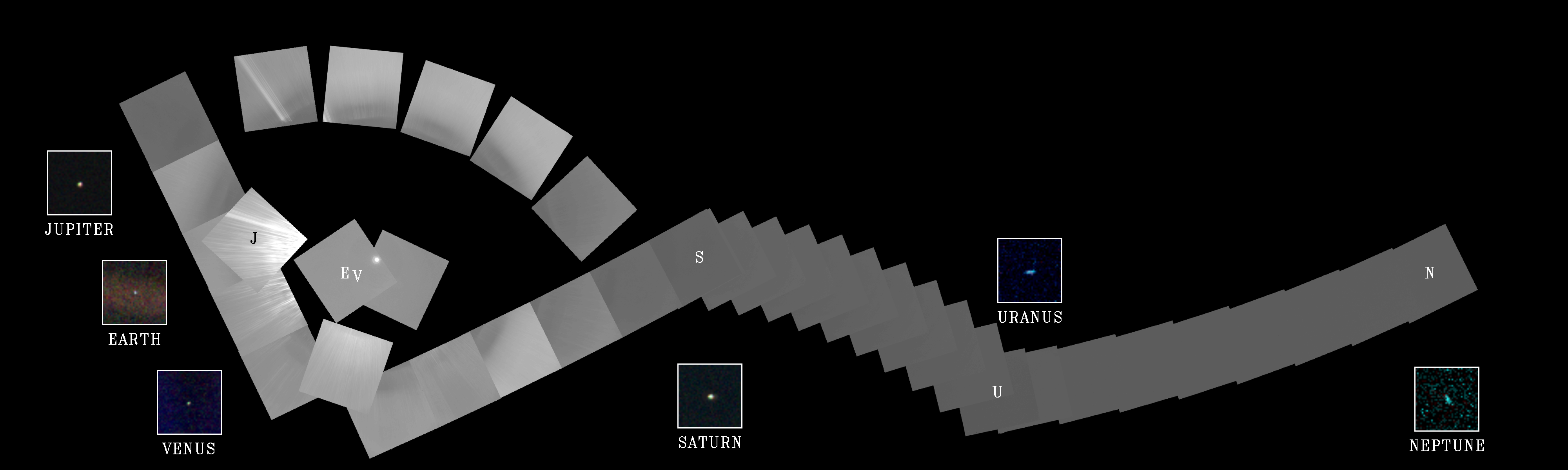 The "family portrait" of the Solar System taken by Voyager 1. This picture consists of 60 frames taken through the Wide Angle and Narrow Angle cameras using the Methane, Violet, Blue, Green, and Clear Filters. Suggested for English Wikipedia:alternative text for images: a set of grey squares trace roughly left to right. A few are labeled with single letters associated with a nearby coloured square. J is near to a square labeled Jupiter; E to Earth; V to Venus; S to Saturn; U to Uranus; N to Neptune. A small spot appears at the centre of each coloured square